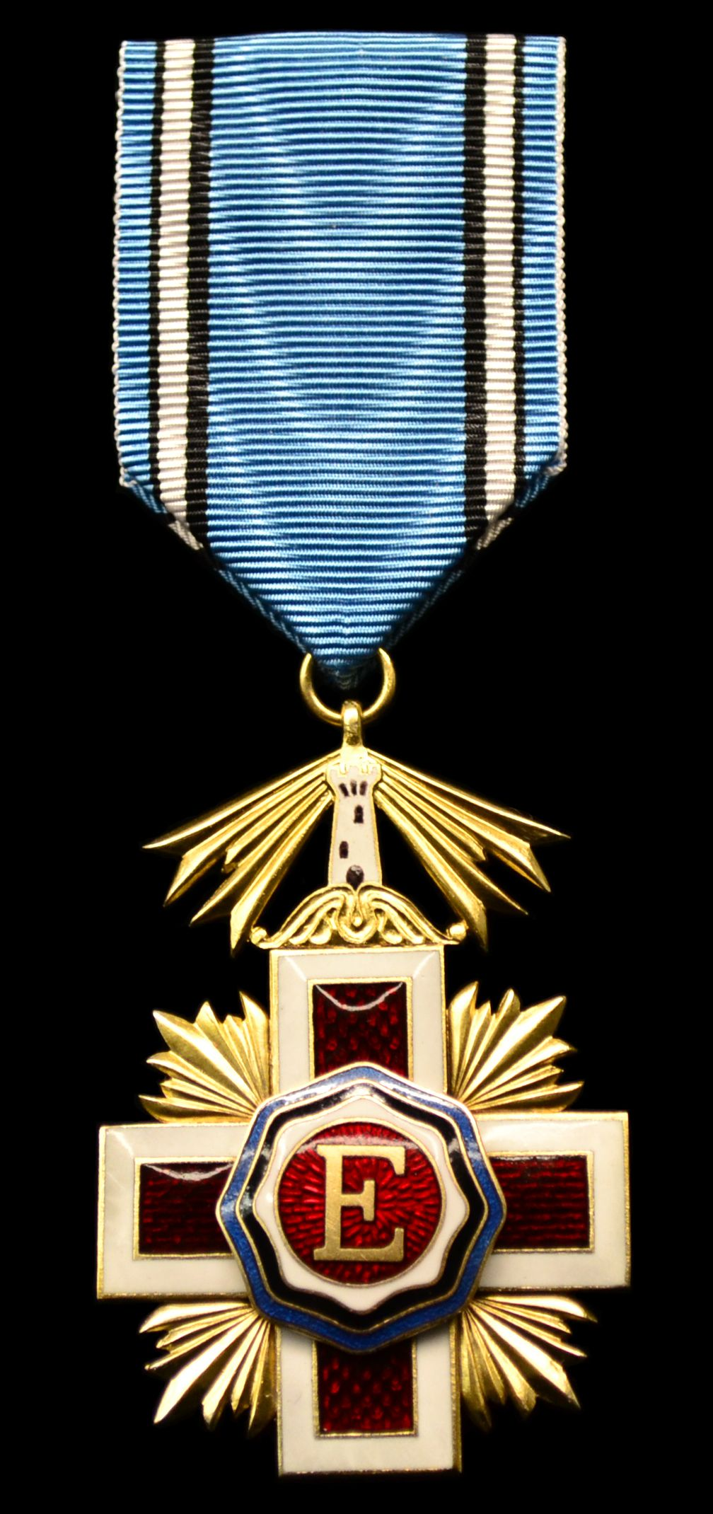 Estonia. Badge of the Order of the Estonian Red Cross 5th class. The exhibition of the Estonian State Decorations at the National Library of Estonia in Tallinn.